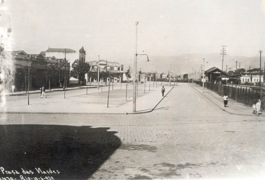 Praça das Nações and the cinema Paraíso